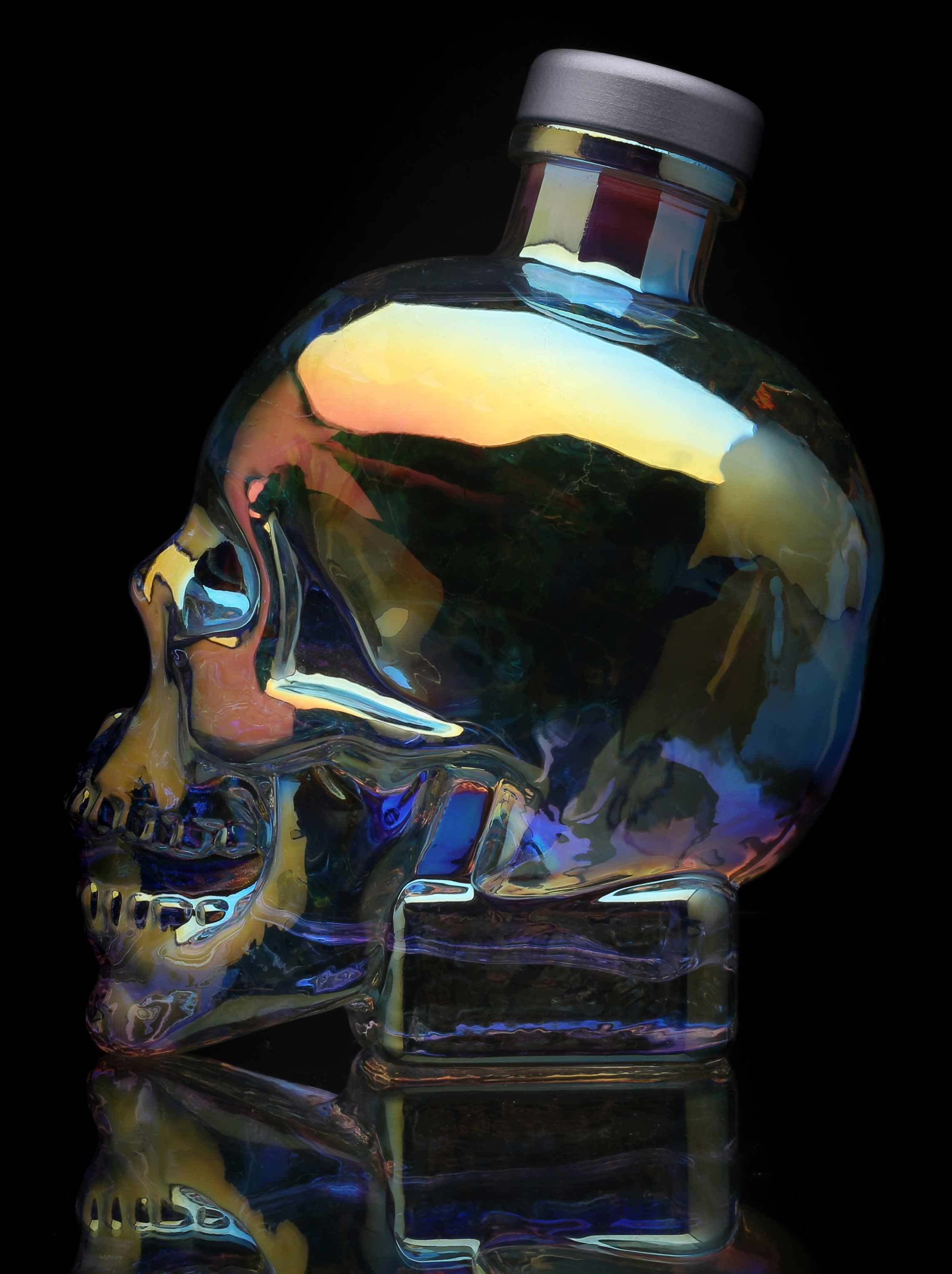 Aurora Bottle